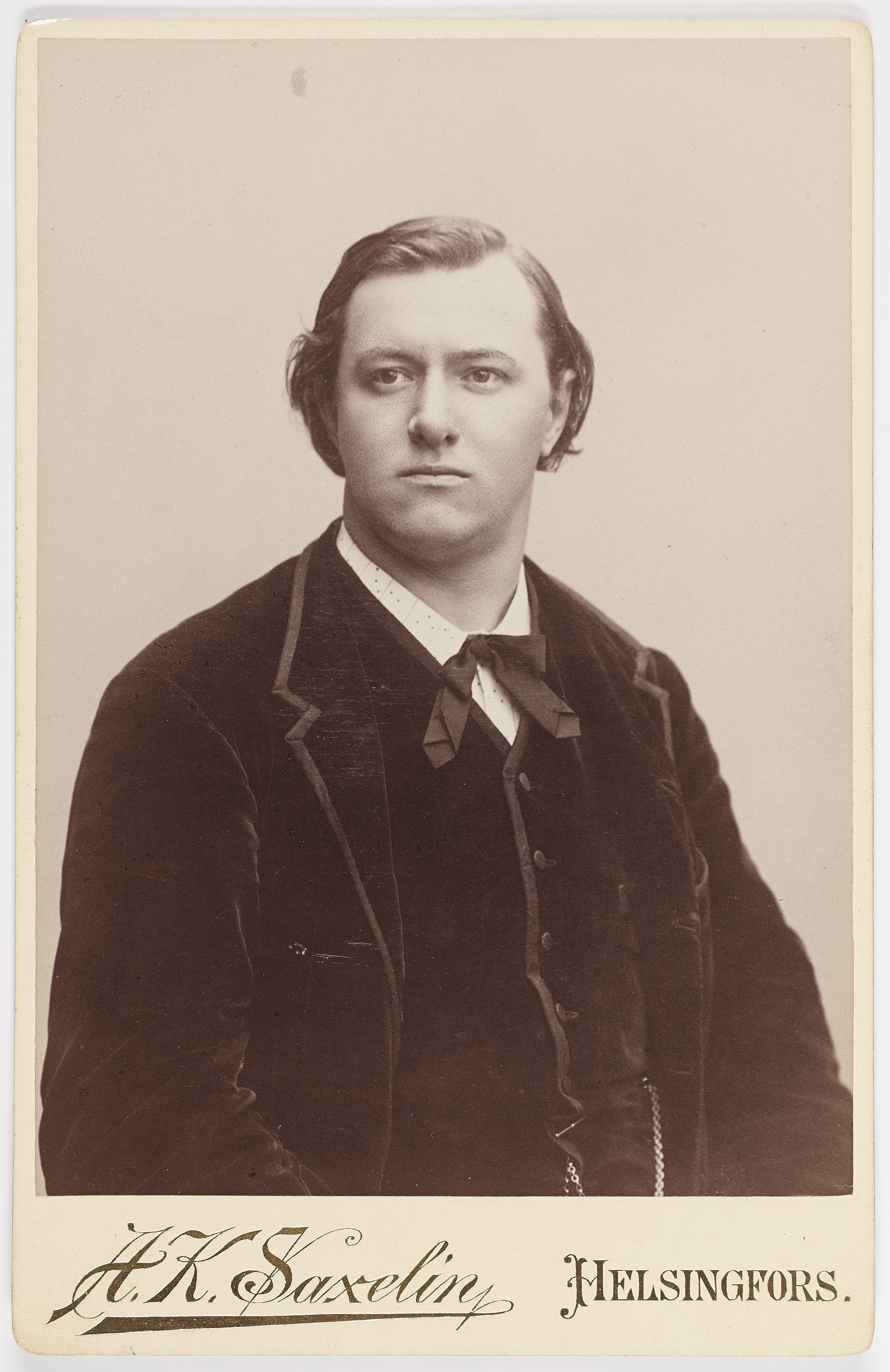 Photograph of the American pianist William Dayas (1863–1903).